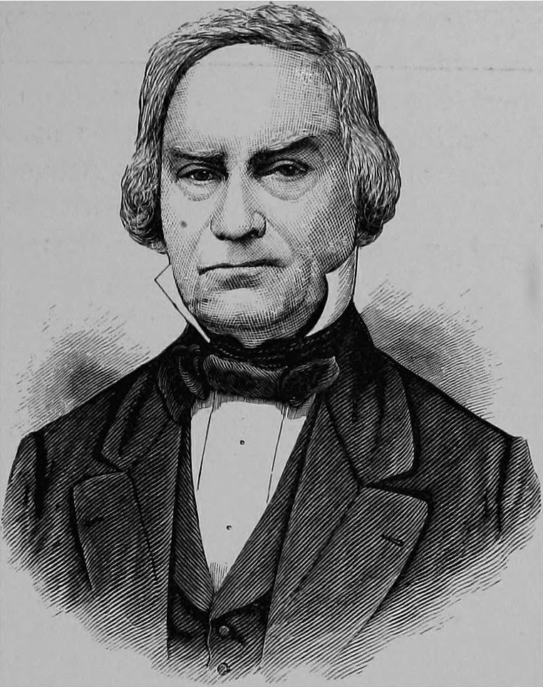 Daniel Gott, Congressman from New York